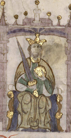 Iñigo Arista of Pamplona